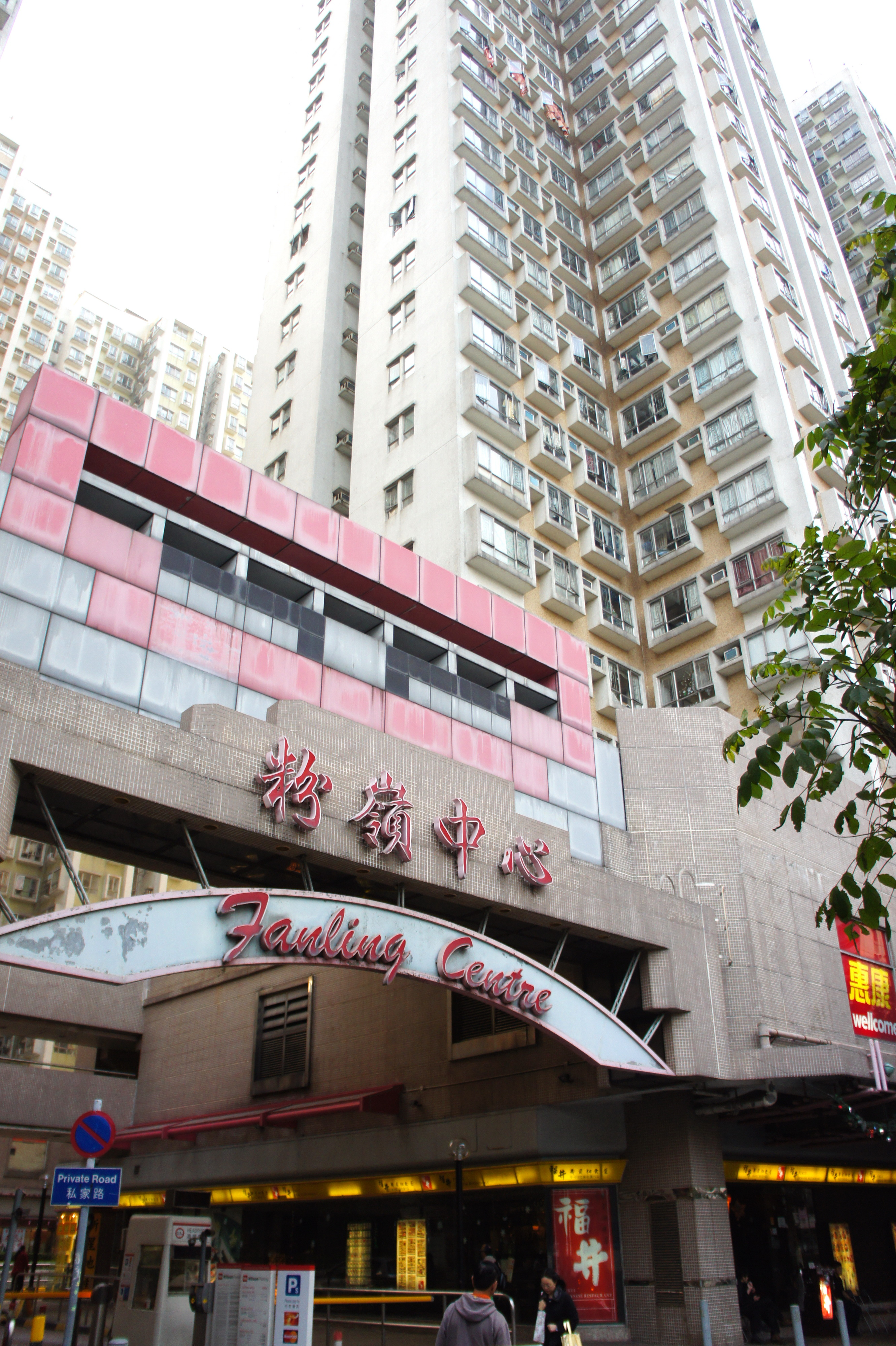 Fanling Centre, New Territories, Hong Kong.